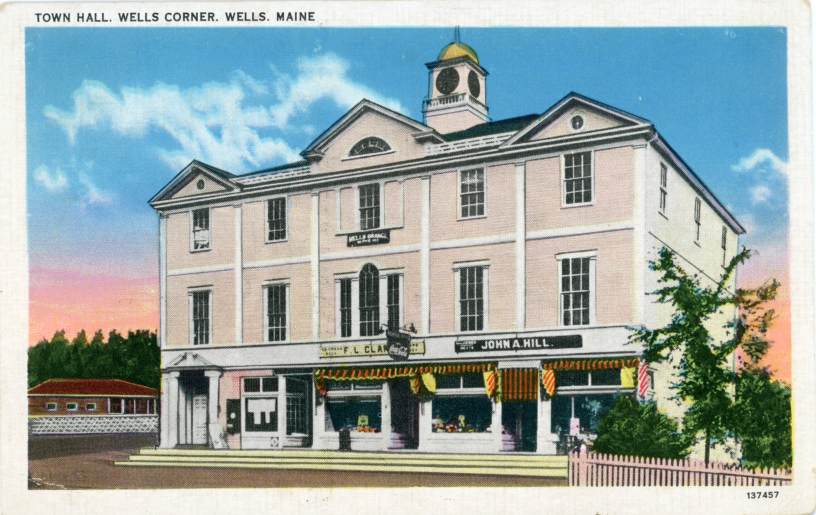 1911 postcard of the town hall in Wells, Maine, USA.